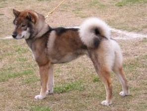 Shikoku dog